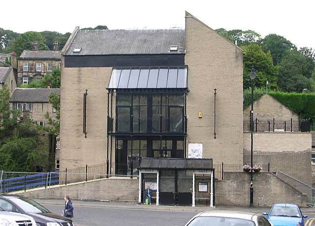 Lodges Supermarket building (now Riverside Shopping Centre) Originally Lodges, a large supermarket on two levels, this building was derelict at the time of this photo (2007) Local residents, led by the Holme Valley Business Association, campaigned for its demolition. Their campaign was featured in the 2005 Channel 4 documentary, Demolition (TV series). The building was since converted into "Riverside Shopping Centre" containing several smaller shops, with some accommodation on the top floor. This was the setting for the supermarket where Marina, of Last of the Summer Wine fame, worked